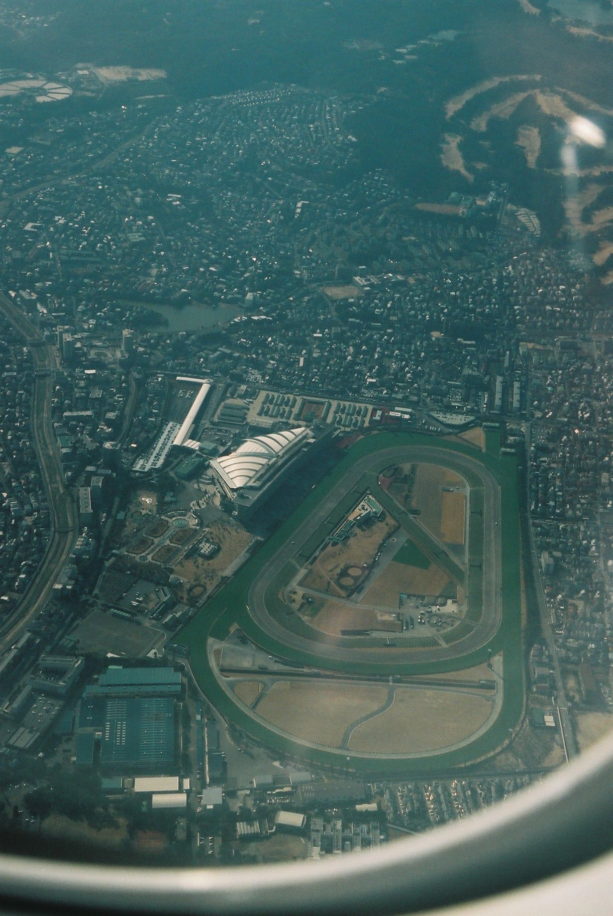 Aerial shot of Hanshin Racecourse.